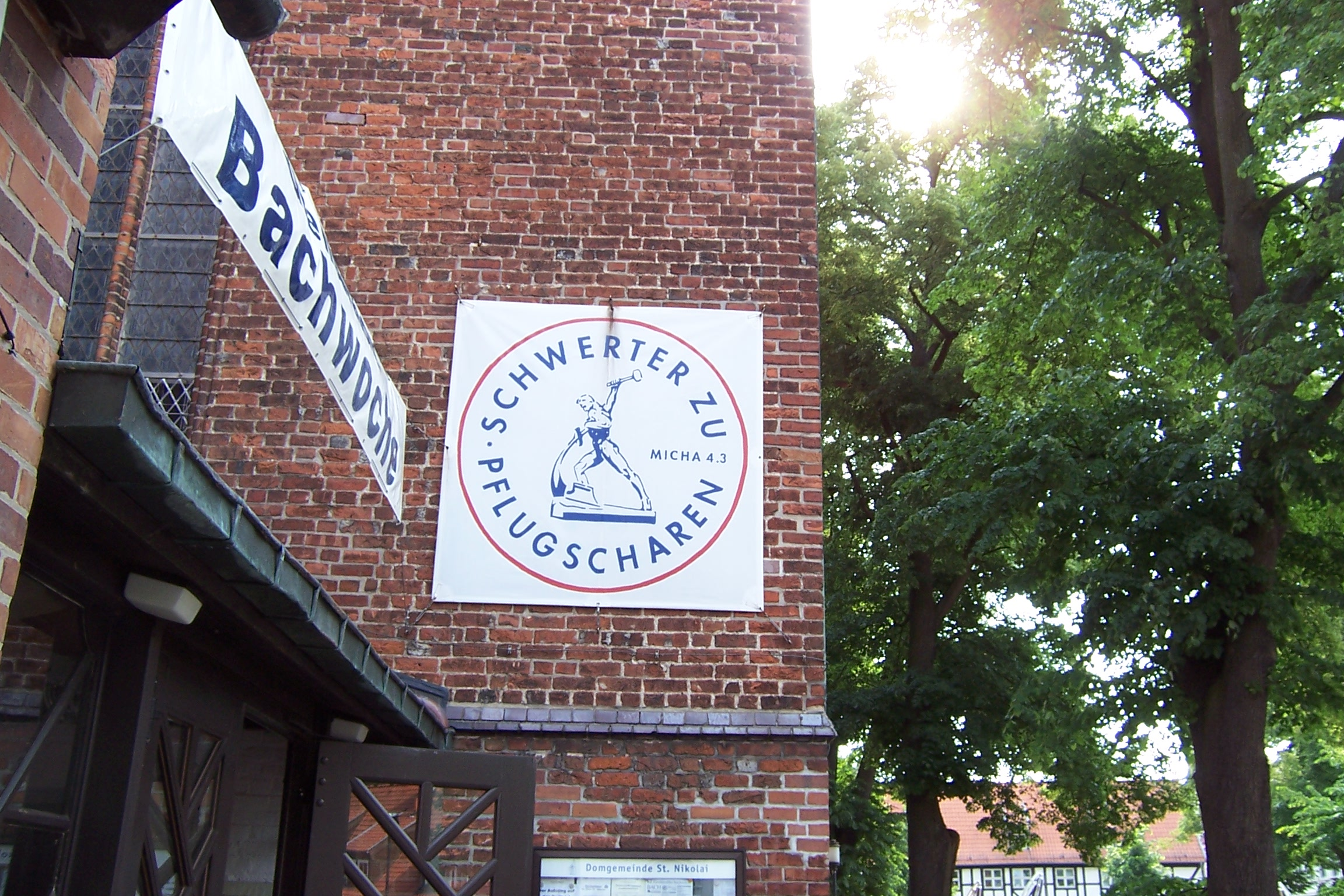 Schwerter zu Pflugscharen (swords into plough shares) banner at the Greifswald cathedral, 2008